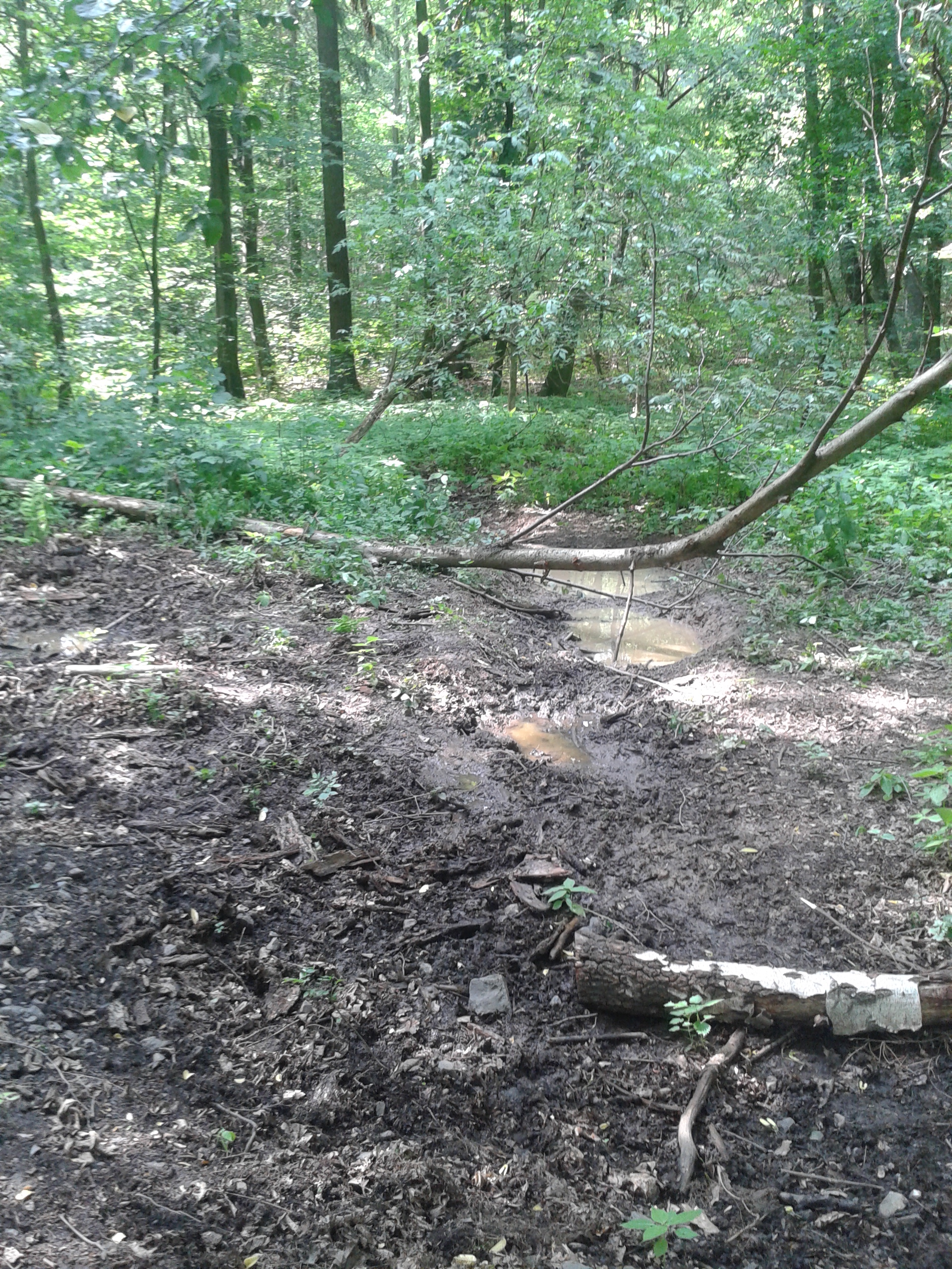 Boar puddle at the foot of Šance in the area where the Závistský brook springs and the valley of Kálek begins (named after Boar puddles like this one).